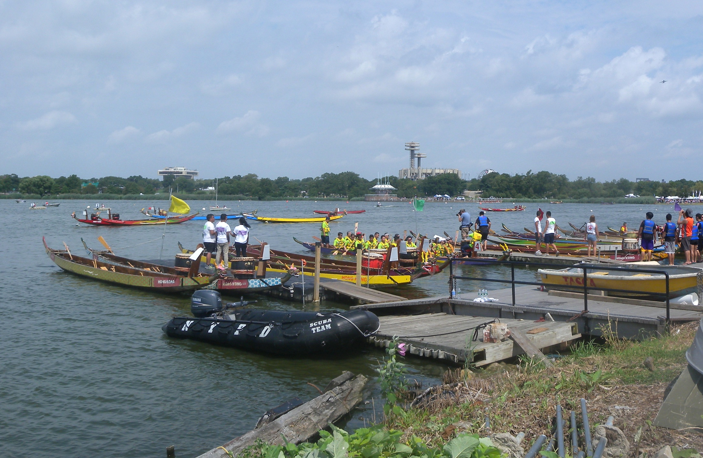 Looking north as racers get their act together on a mostly cloudy day.